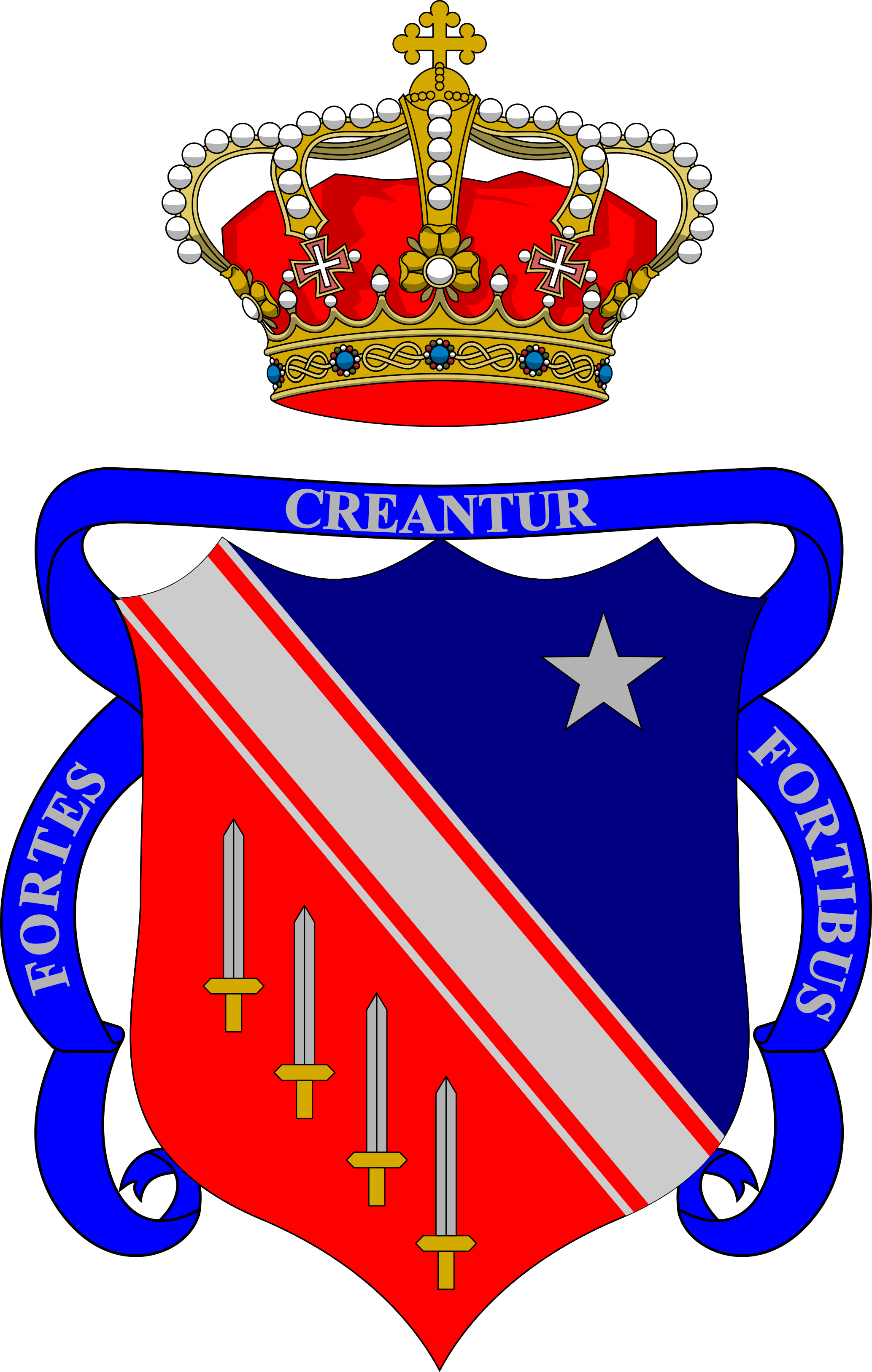 Coat of Arms of the 38th Infantry Regiment "Ravenna", Royal Italian Army, 1939 - Royal Crown by user Flanker, released to public domain (see File:Crown of Savoy.svg)